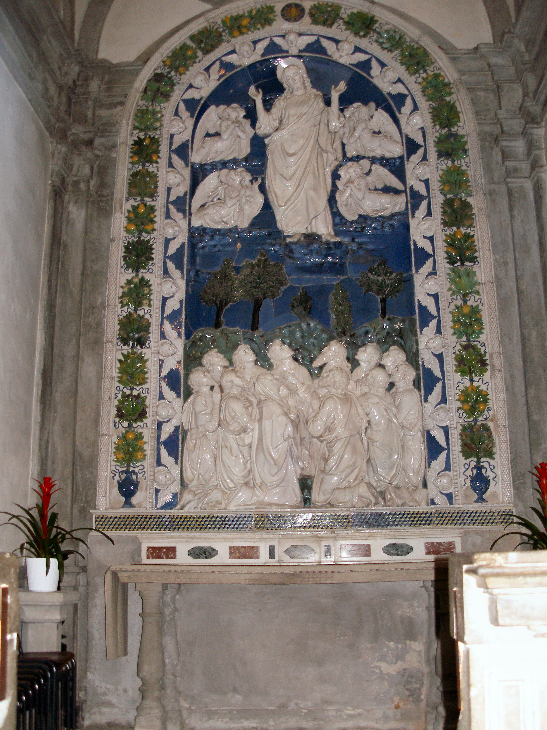 Andrea della Robbia, Ascension of Christ, glazed terracotta in the Santuario della Verna, Chiusi.